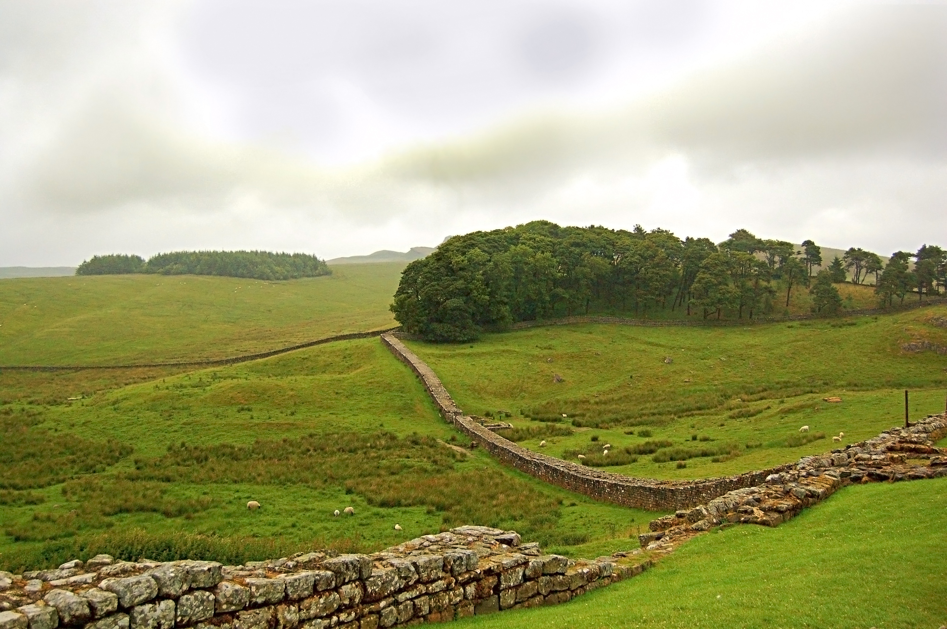 Part of Hadrian's Wall near Housesteads